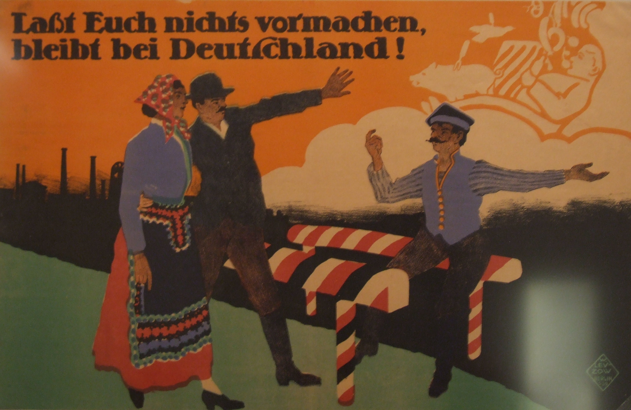 German propaganda poster from Upper Silesia, 1921. Deutsches Historisches Museum, Berlin